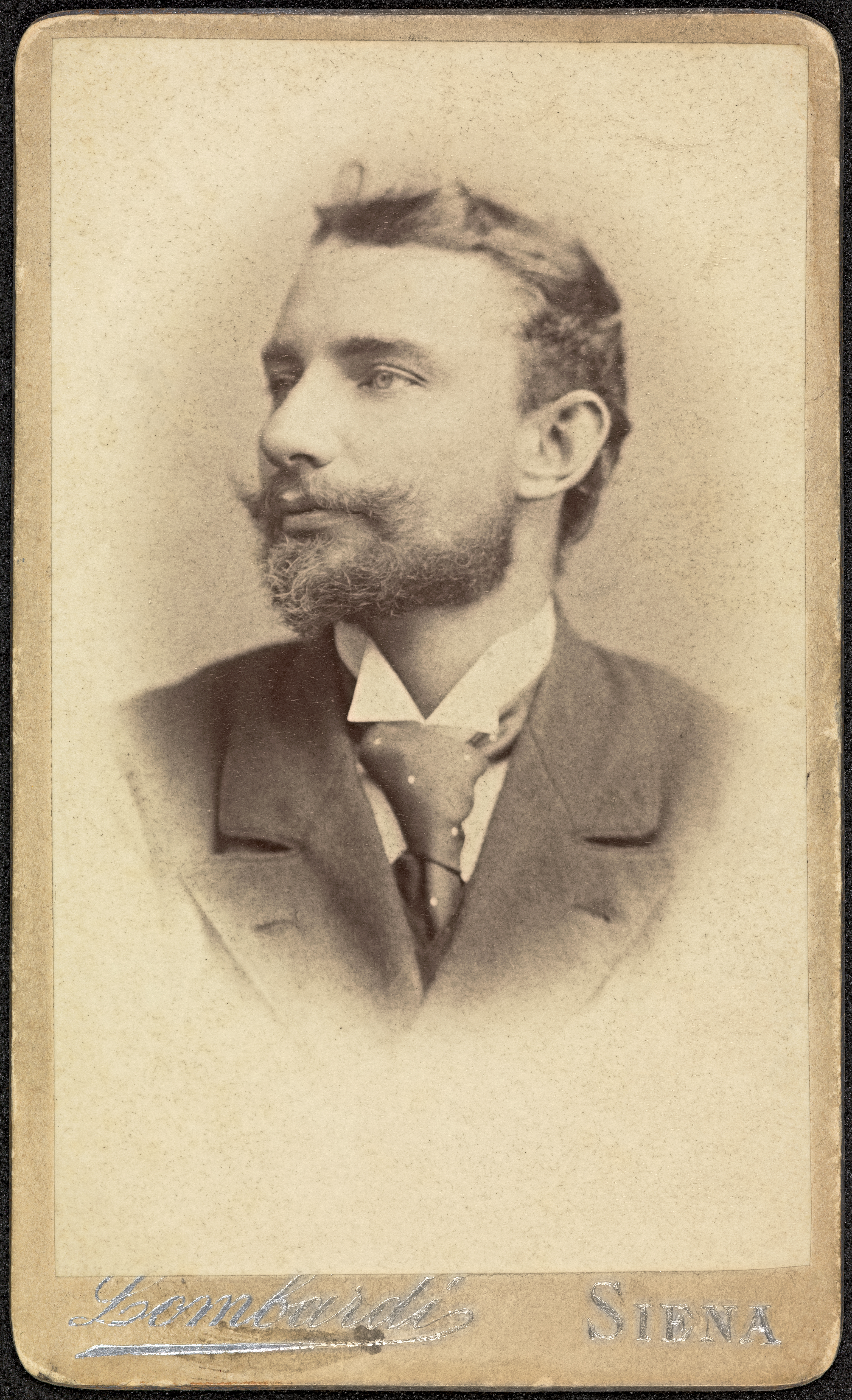 Beskrivelse / Description: Nils Collett Vogt var forfatter. Visittkort / carte de visite. Dato / Date: Juli 1894 Sted / Place: Siena, Italia Fotograf / Photographer: Civ. Paolo Lombardi (Siena) Digital kopi av original / Digital copy of original: s/h papirpositiv, visittkortportrett Eier / Owner Institution: Nasjonalbiblioteket / National Library of Norway Lenke / Link: Bildesignatur / Image Number: blds_06788